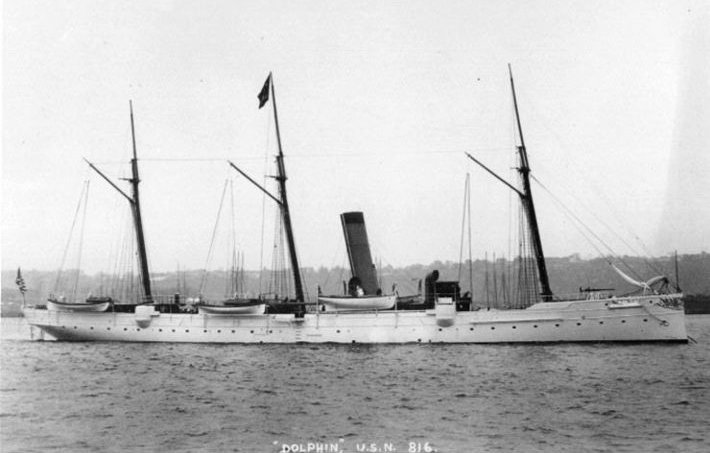 USS Dolphin (PG-24)